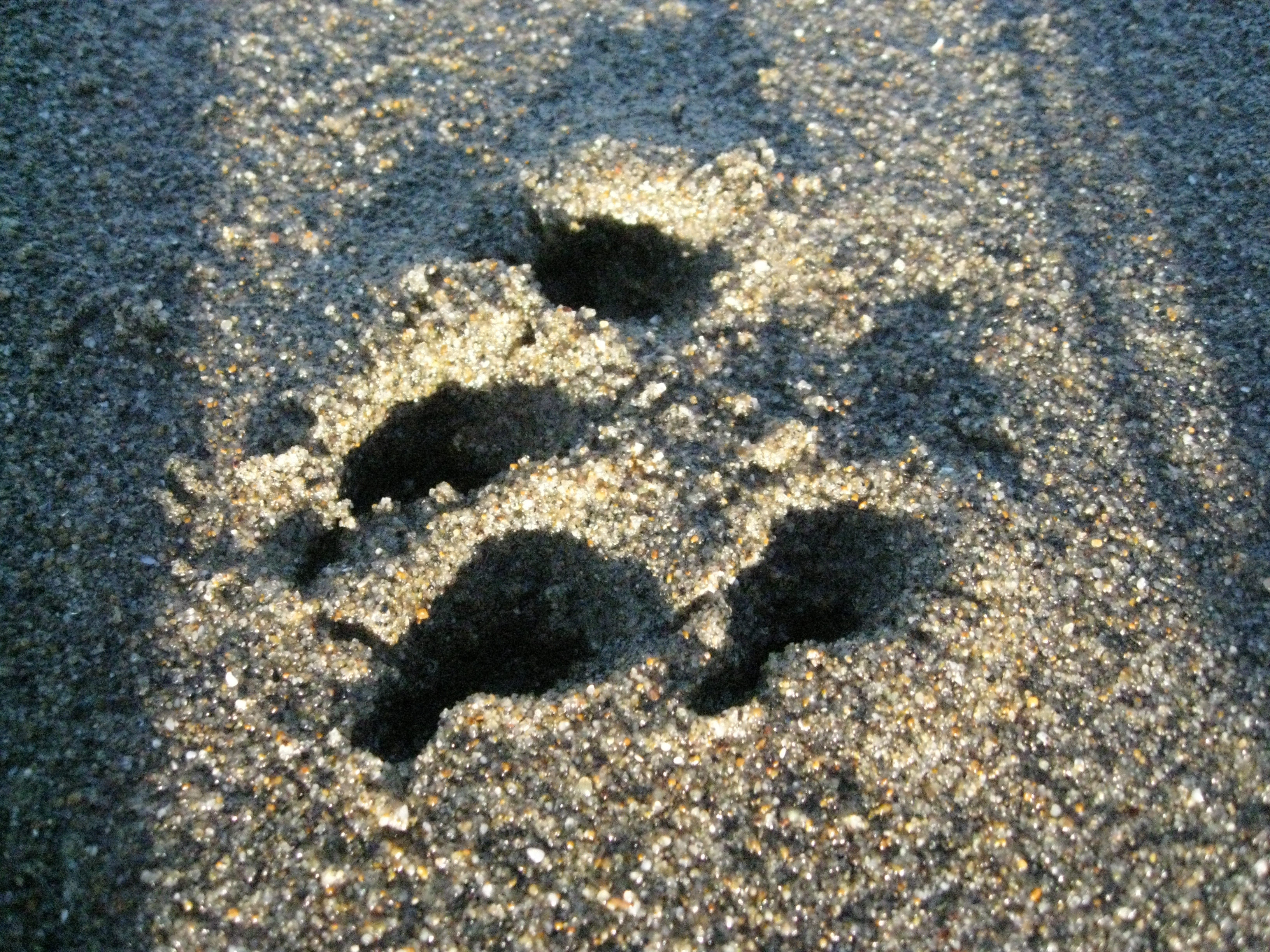 A footprint in the sand